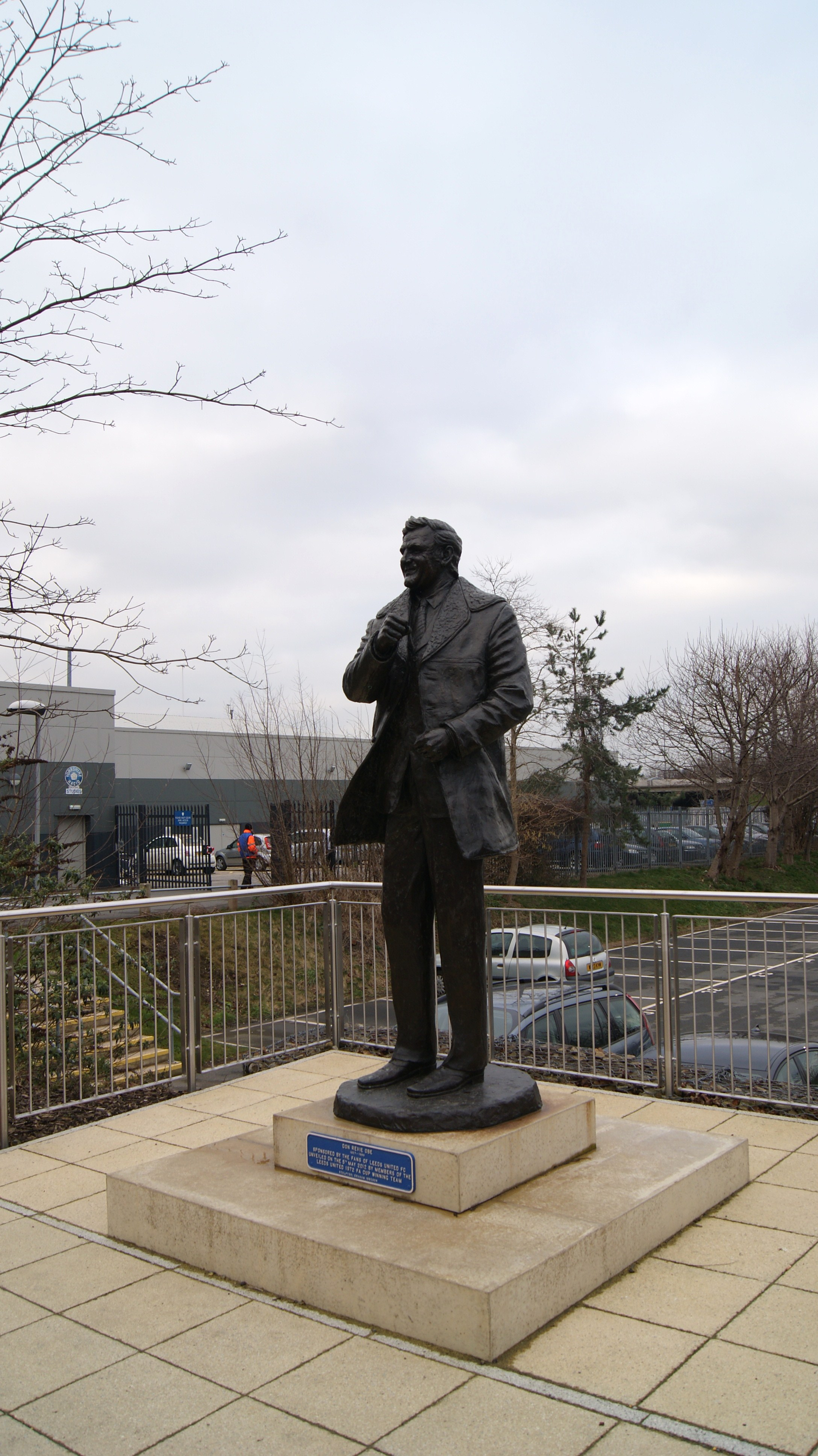 A statue of the late Leeds United manager Don Revie which was unveiled in 2012. The statue sits opposite the East Stand. Taken on the evening of Wednesday the 20th of February 2013